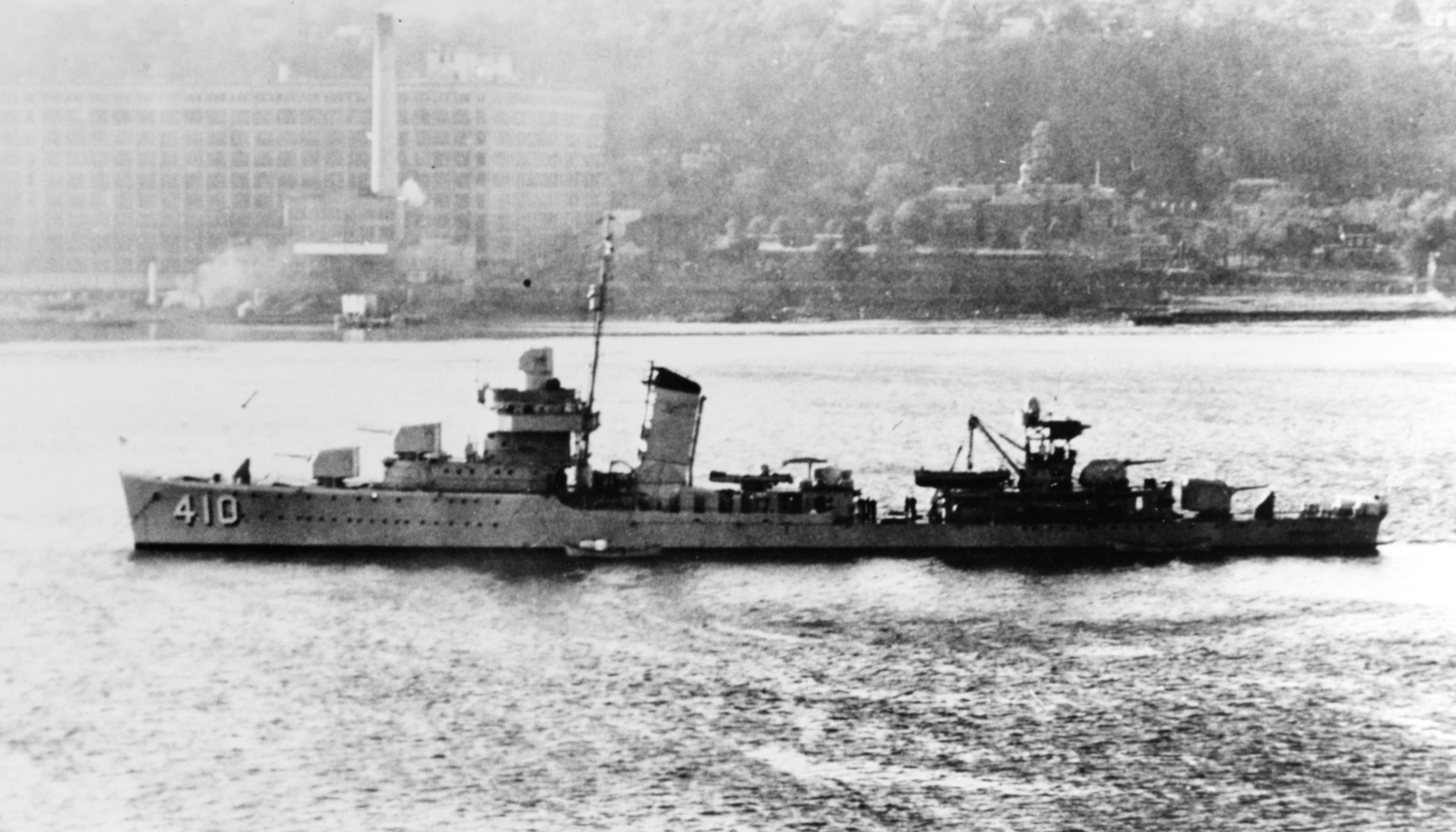 The U.S. Navy destroyer USS Hughes (DD-410) circa 1939-1940, prior to the rearrangement of her after torpedo tubes.